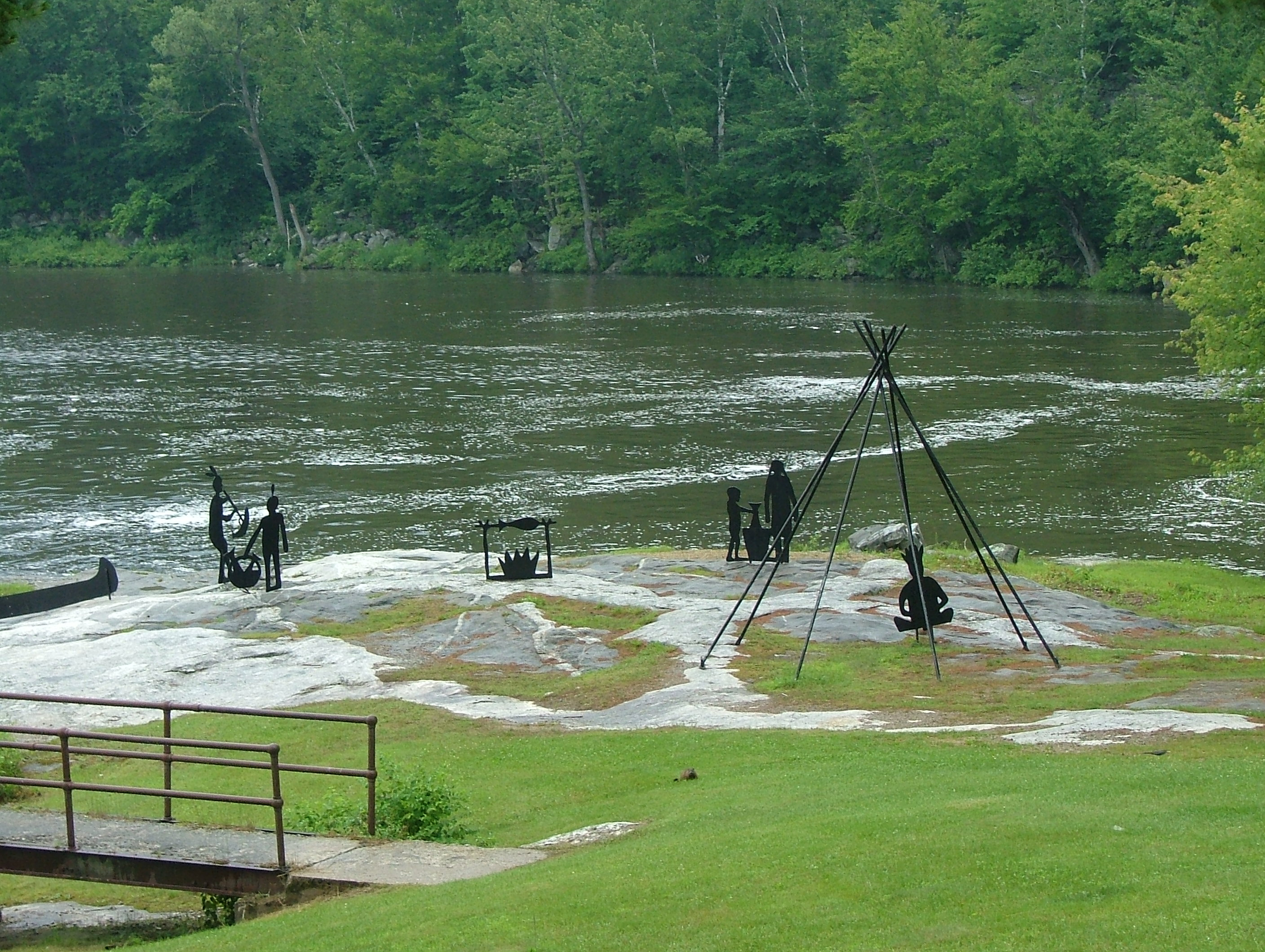 Androscoggin River below the Rumford Falls